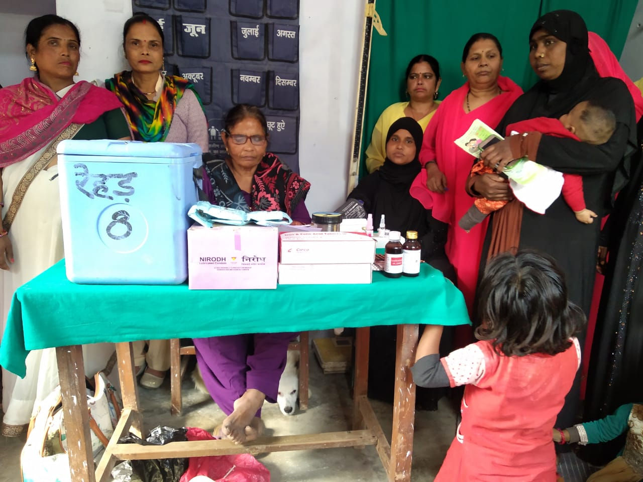 Malo Devi, ANM, working in the government hospital in Rehar.